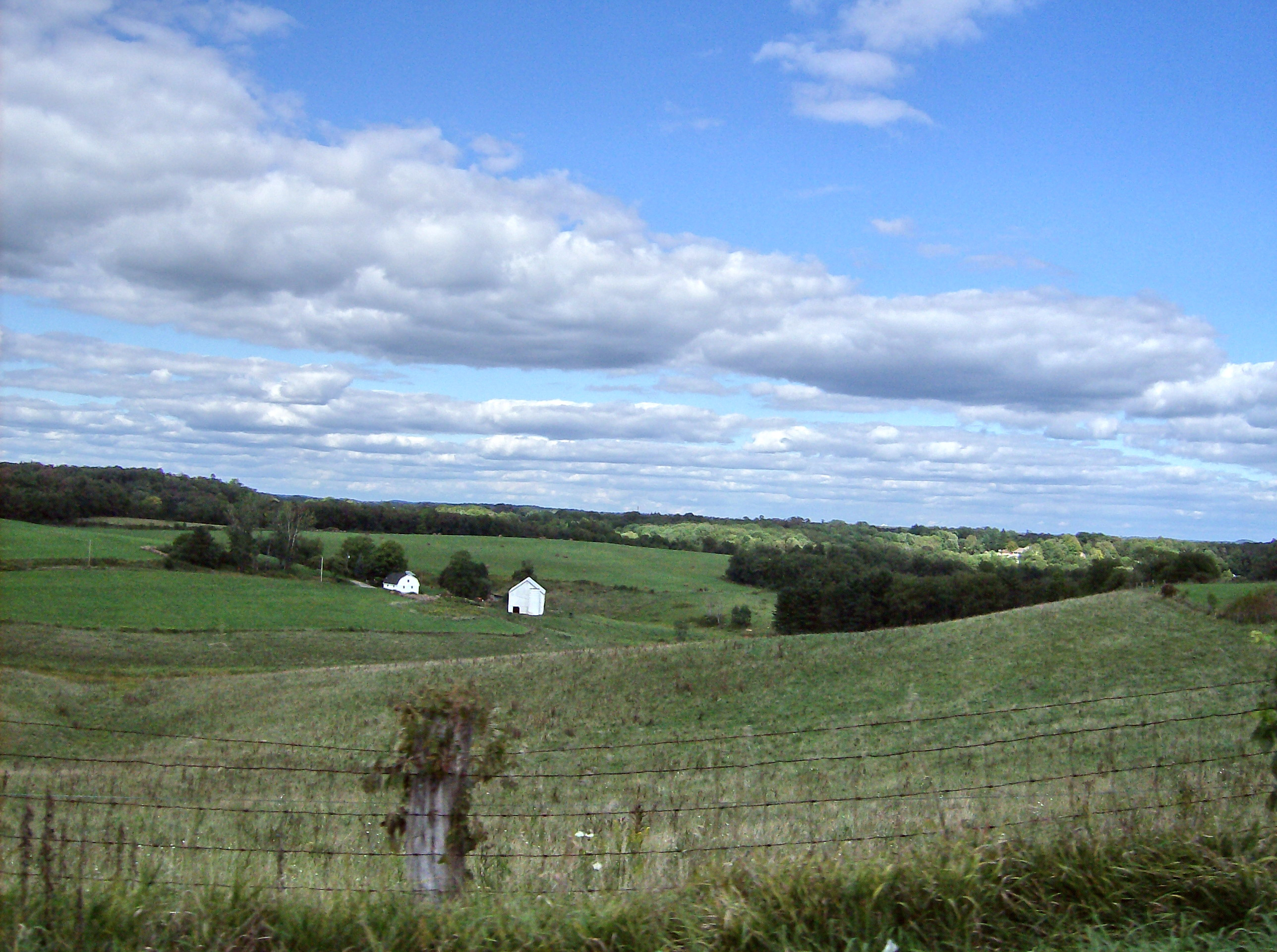 View northeastward from State Route 43 into a valley in eastern Salem Township, Jefferson County, Ohio, United States.